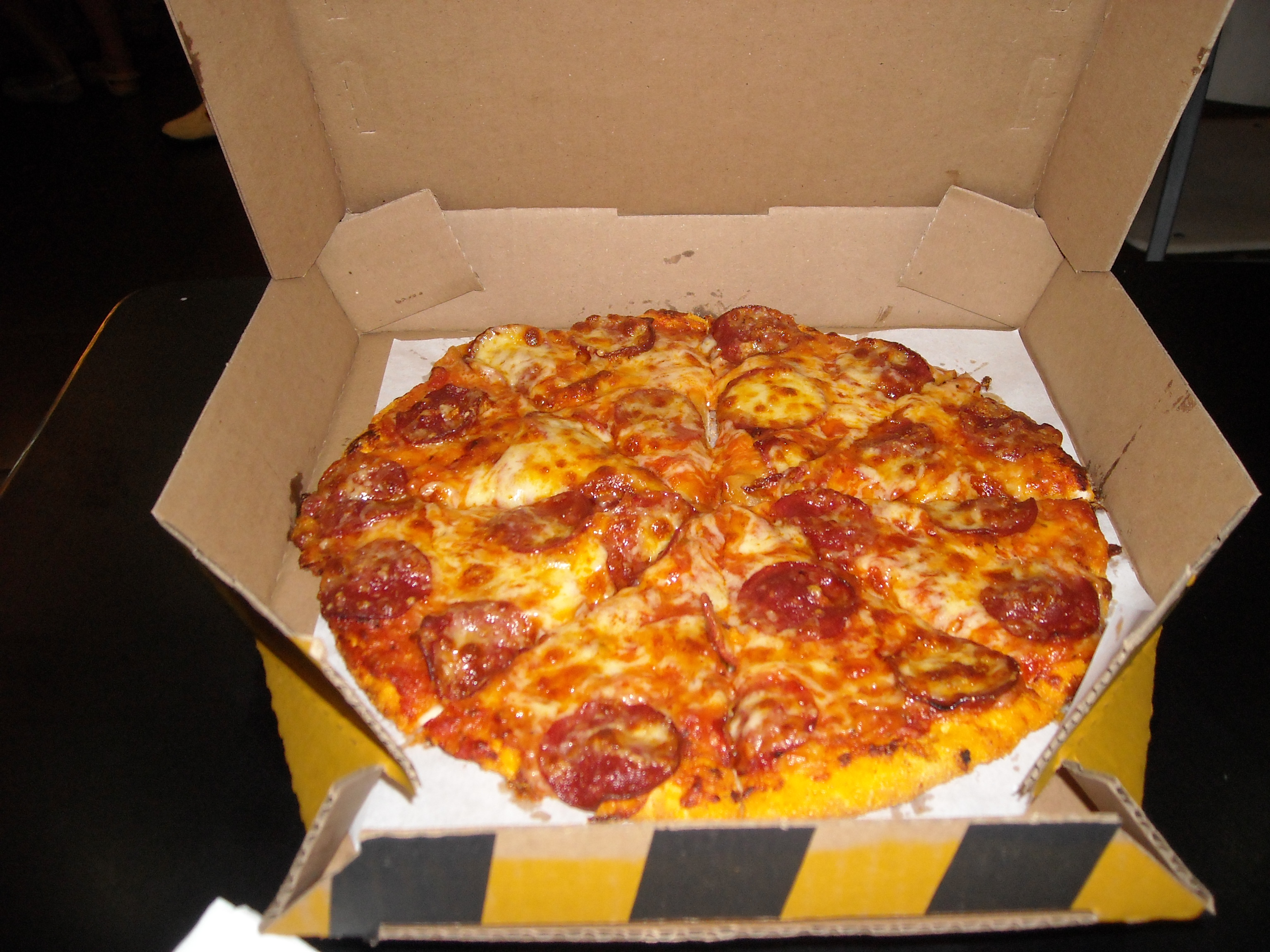 A pizza from Yellow Cab that I had for dinner a few days ago.